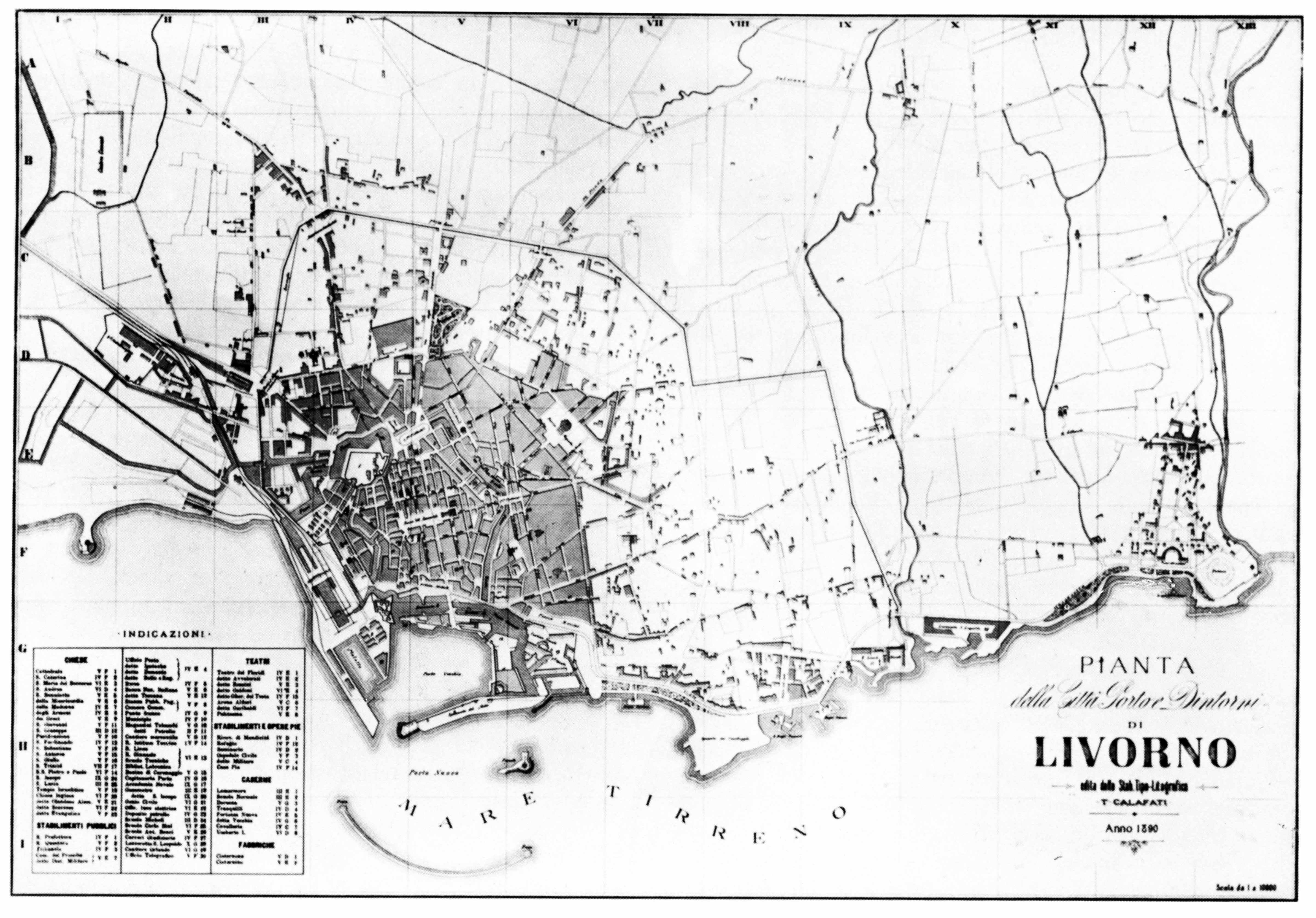 Italy, Livorno. The architectural plan of the town of Livorno. In the map is visible the Diga Rettilinea connected to the land. (Biblioteca Labronica, Raccolta Minutelli, Livorno).